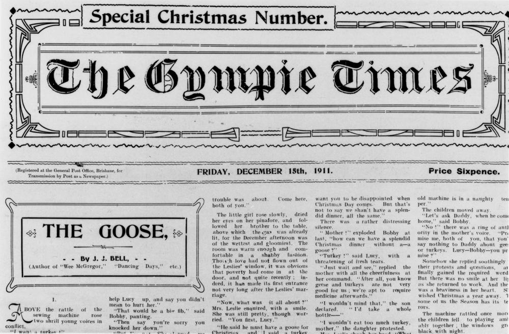 Front page of the Gympie times and Mary River mining gazette newspaper, 1911. Segment of the front page of the Gympie times and Mary River mining gazette newspaper, special Christmas edition. Text includes the beginning of a short story called The Goose by J. J. Bell.